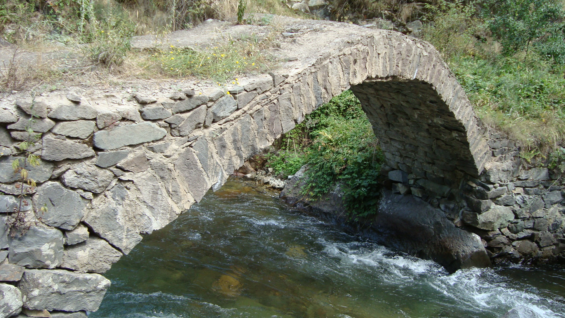 Bridge on the river Trtu (Tartar). Kalbajar/Shahumian, de facto Nagorno-Karabakh Republic / de jure Azerbaijan.